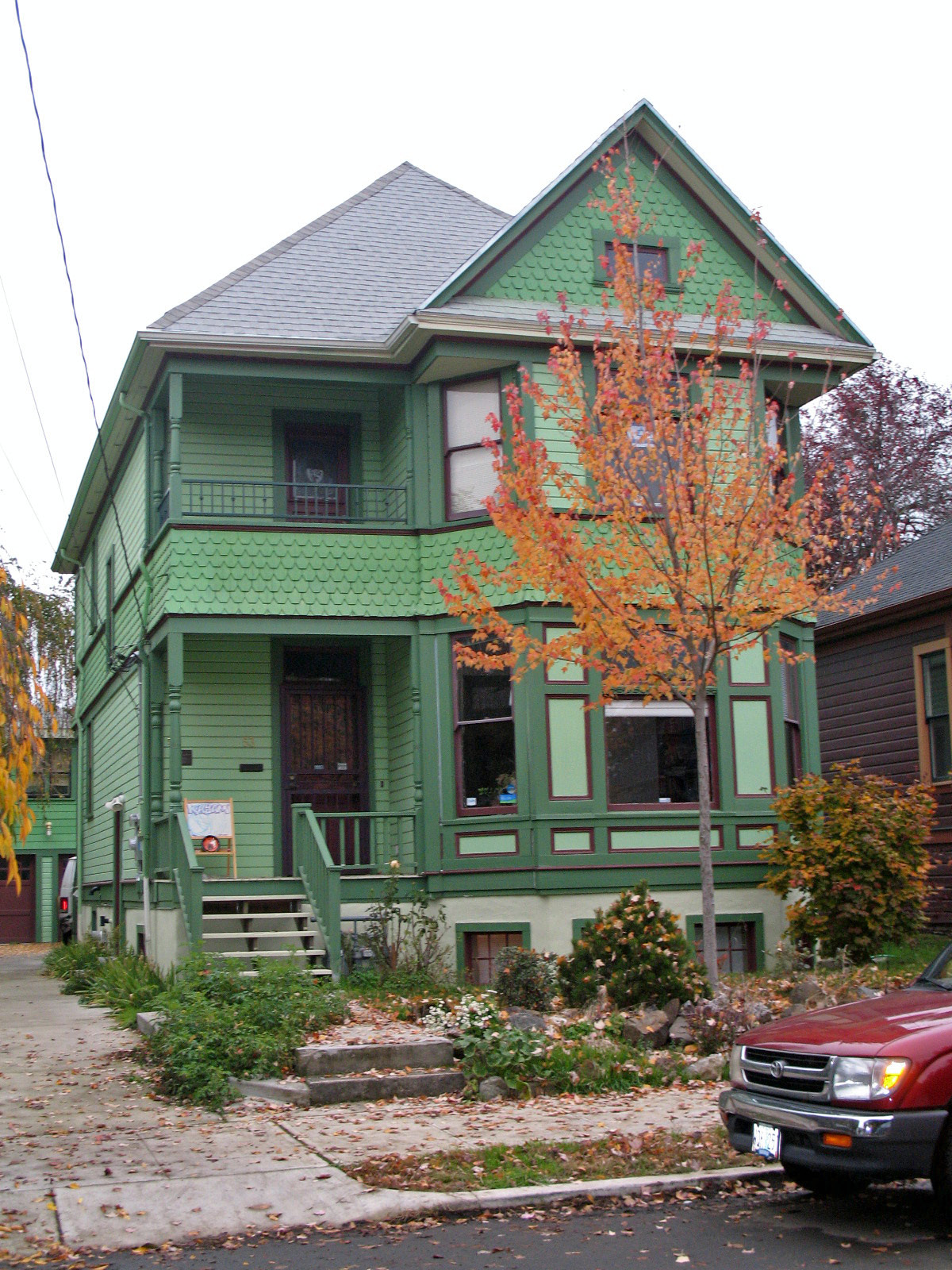 National Register of Historic Places listings in Northeast Portland, Oregon. H.C. Keck House-Mount Olivet Parsonage, 53 NE Thompson St., Portland, OR. Photographed October 25, 2009 from the south side of NE Thompson St. between N Williams and NE Rodney Ave.